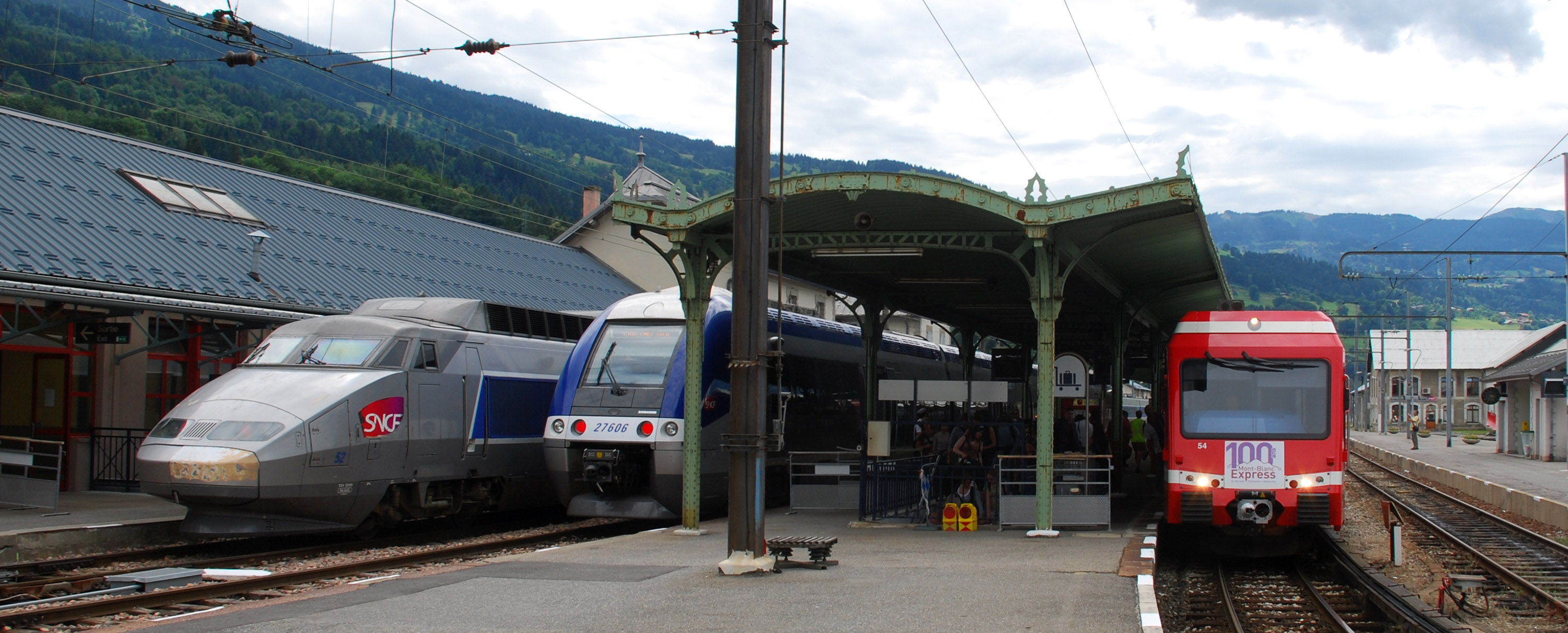 Le Fayet station, with a TGV.